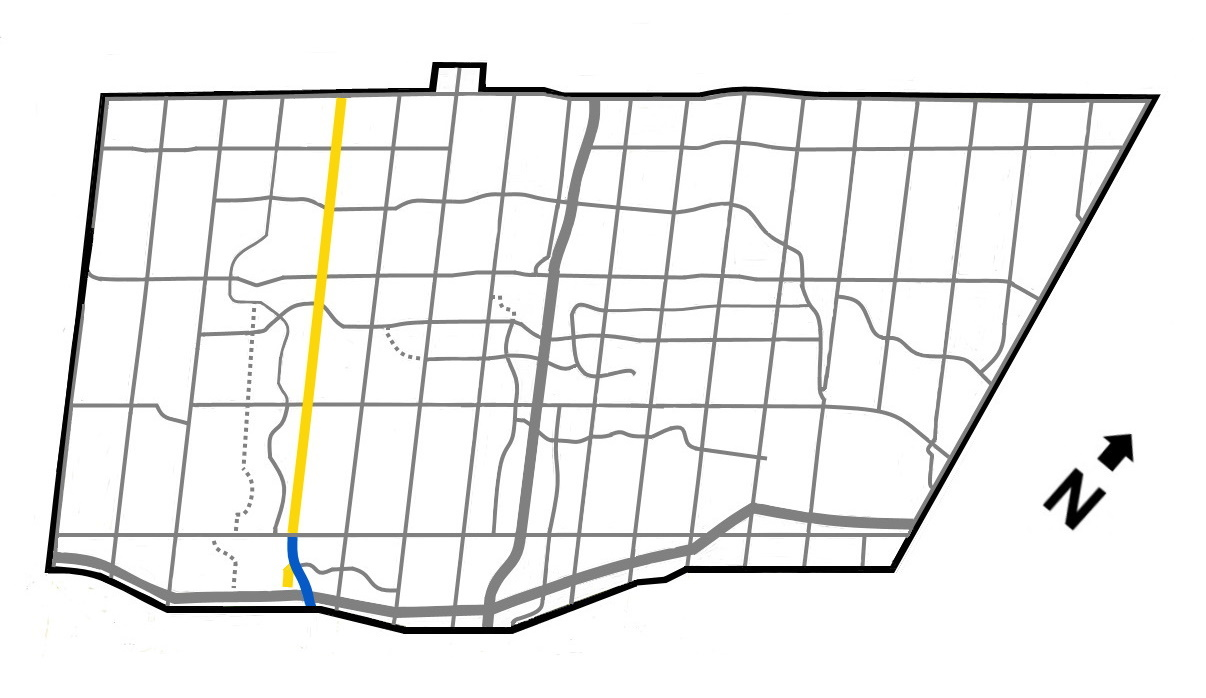 Chinguacousy Road In Brampton